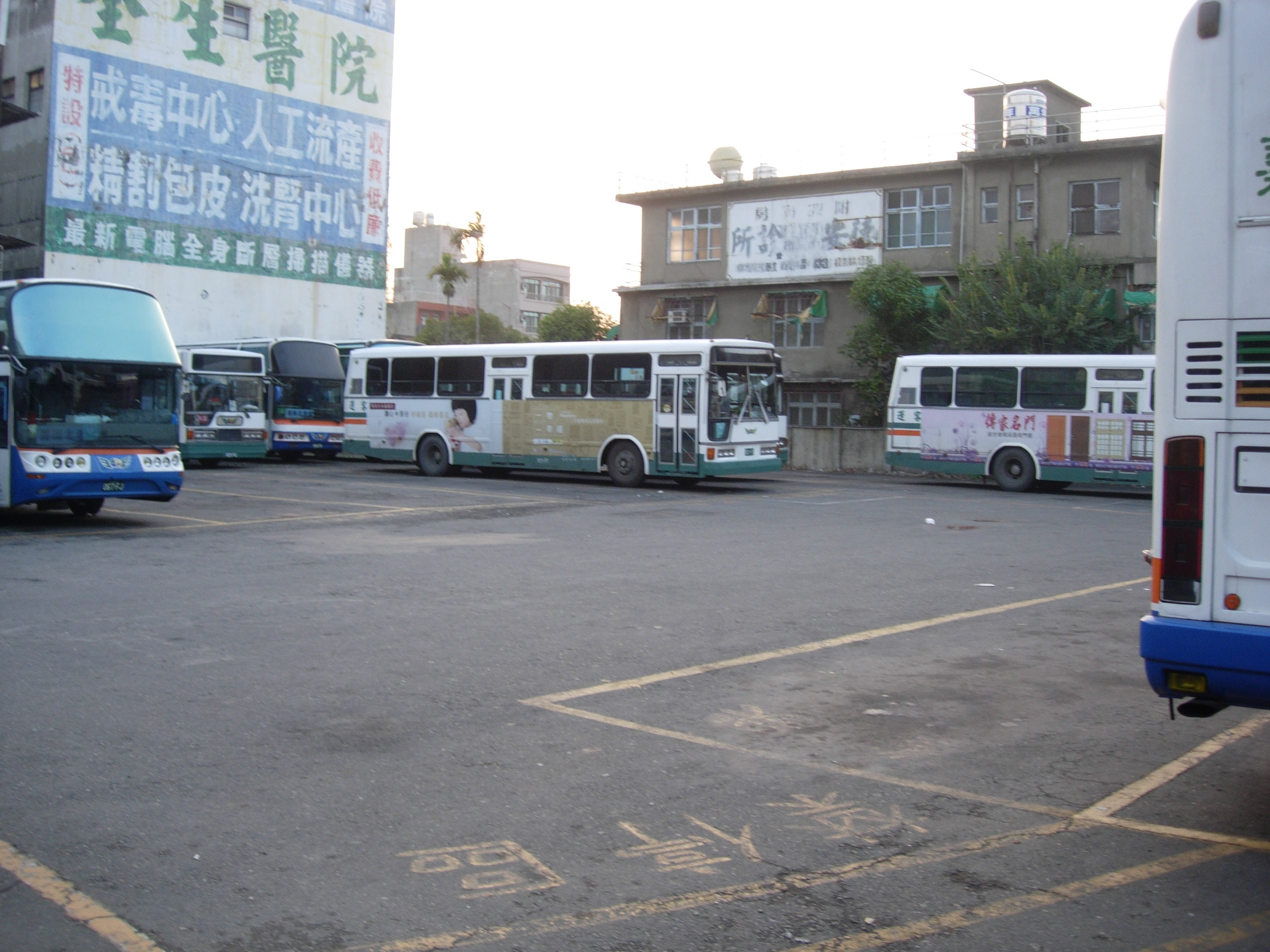 Chia-yi Bus Peikang Station Park中文（台灣）: 嘉義客運北港站停車場。